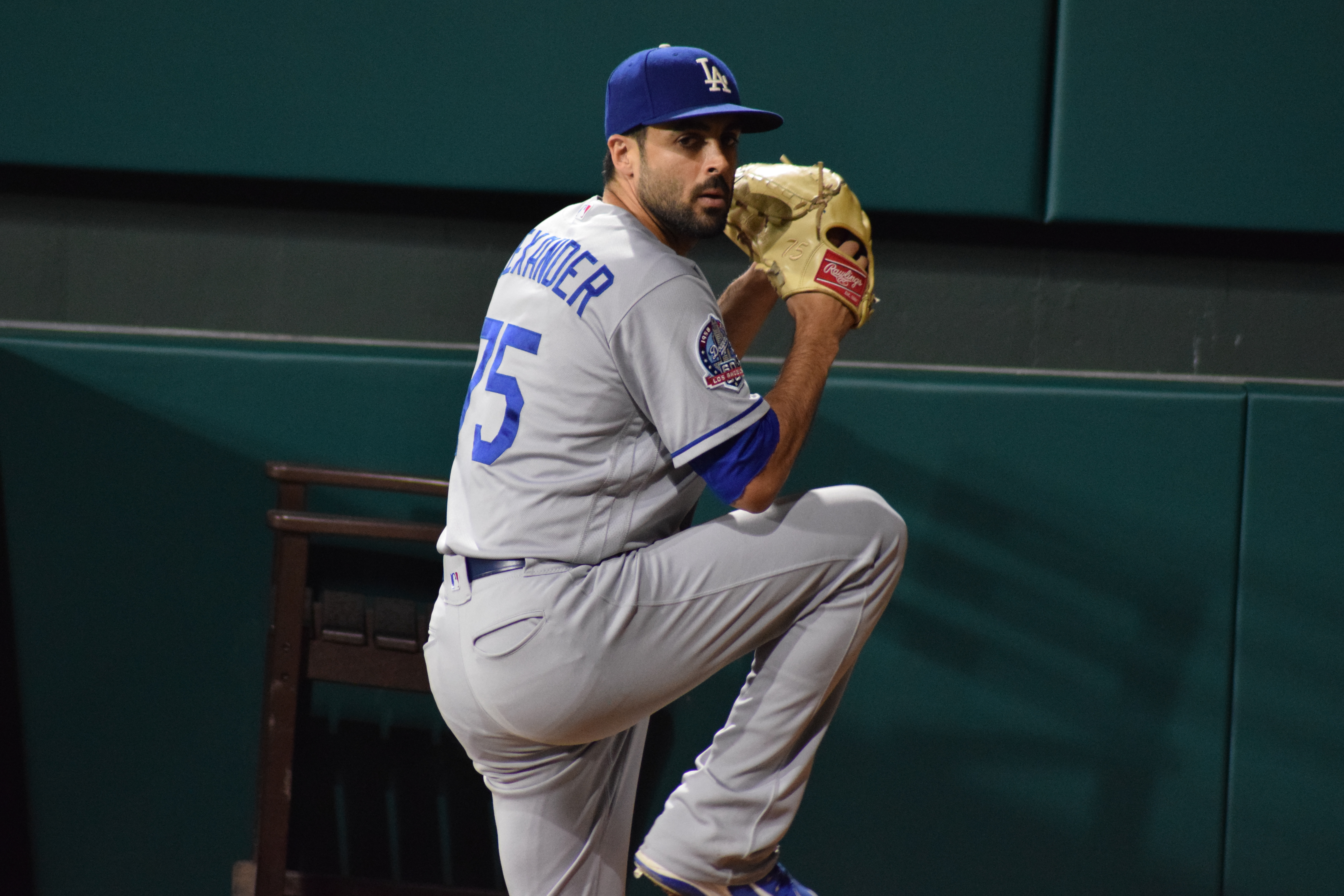 Scott Alexander with the Dodgers